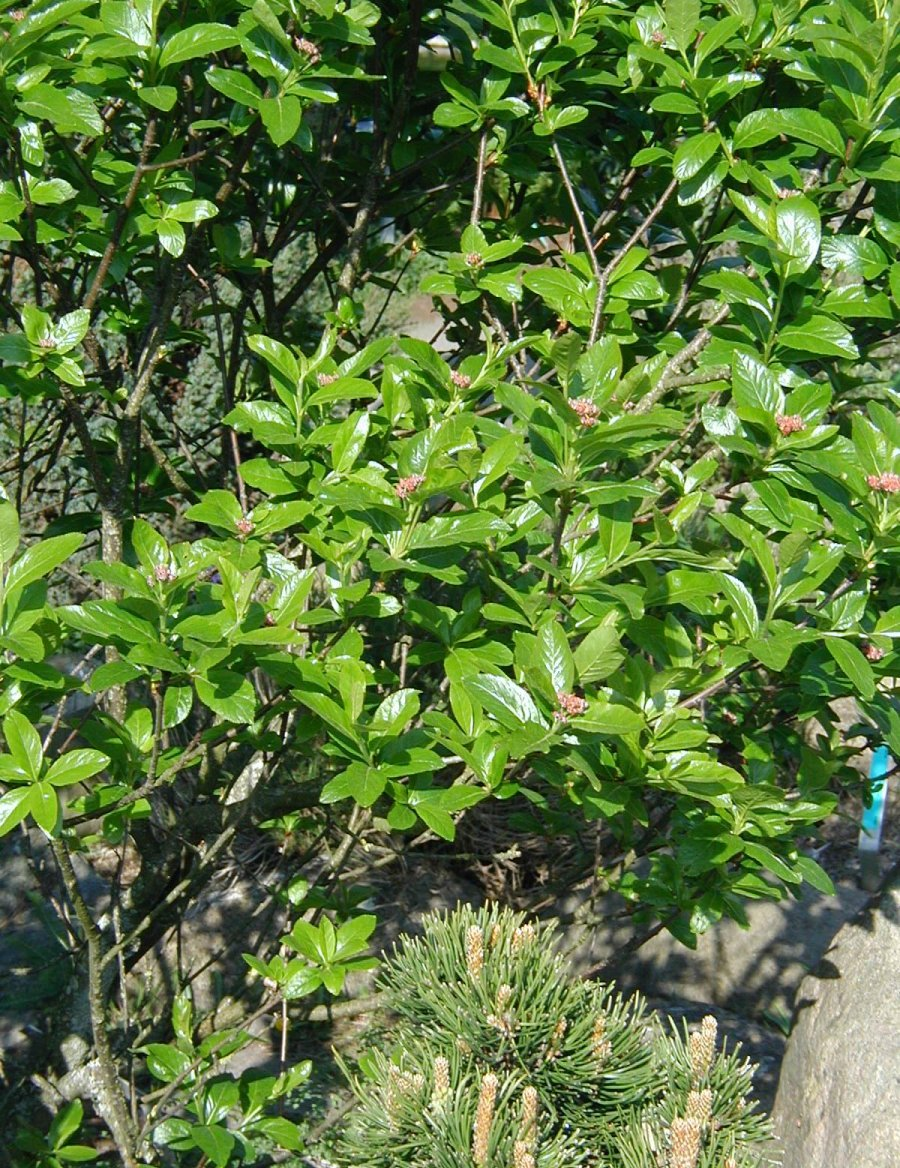 Sorbus chamaemespilus: Leaves and flower heads. Photo: Sten Porse